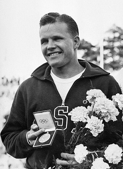 1952 Press Photo David Browning, Miller Anderson, Bobby Clothworthy Olympic Wins